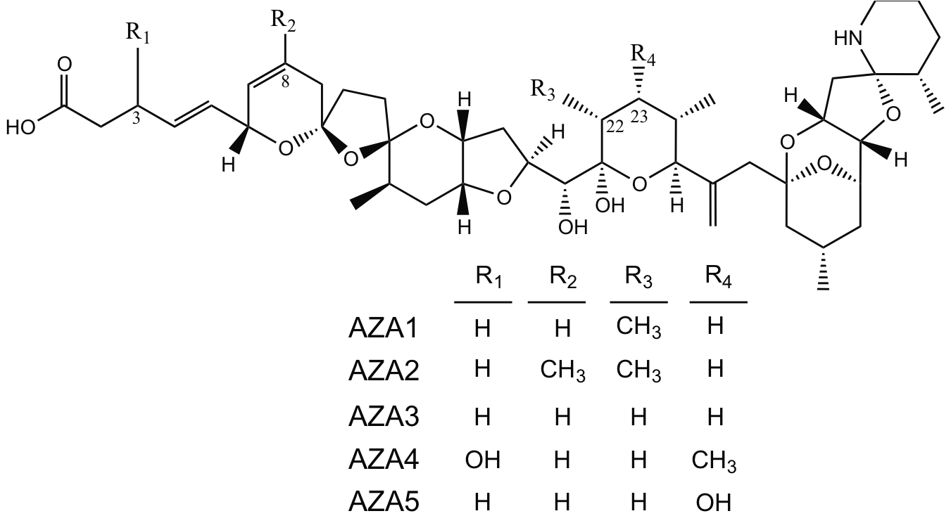 Chemical structure of Azaspiracid analogues